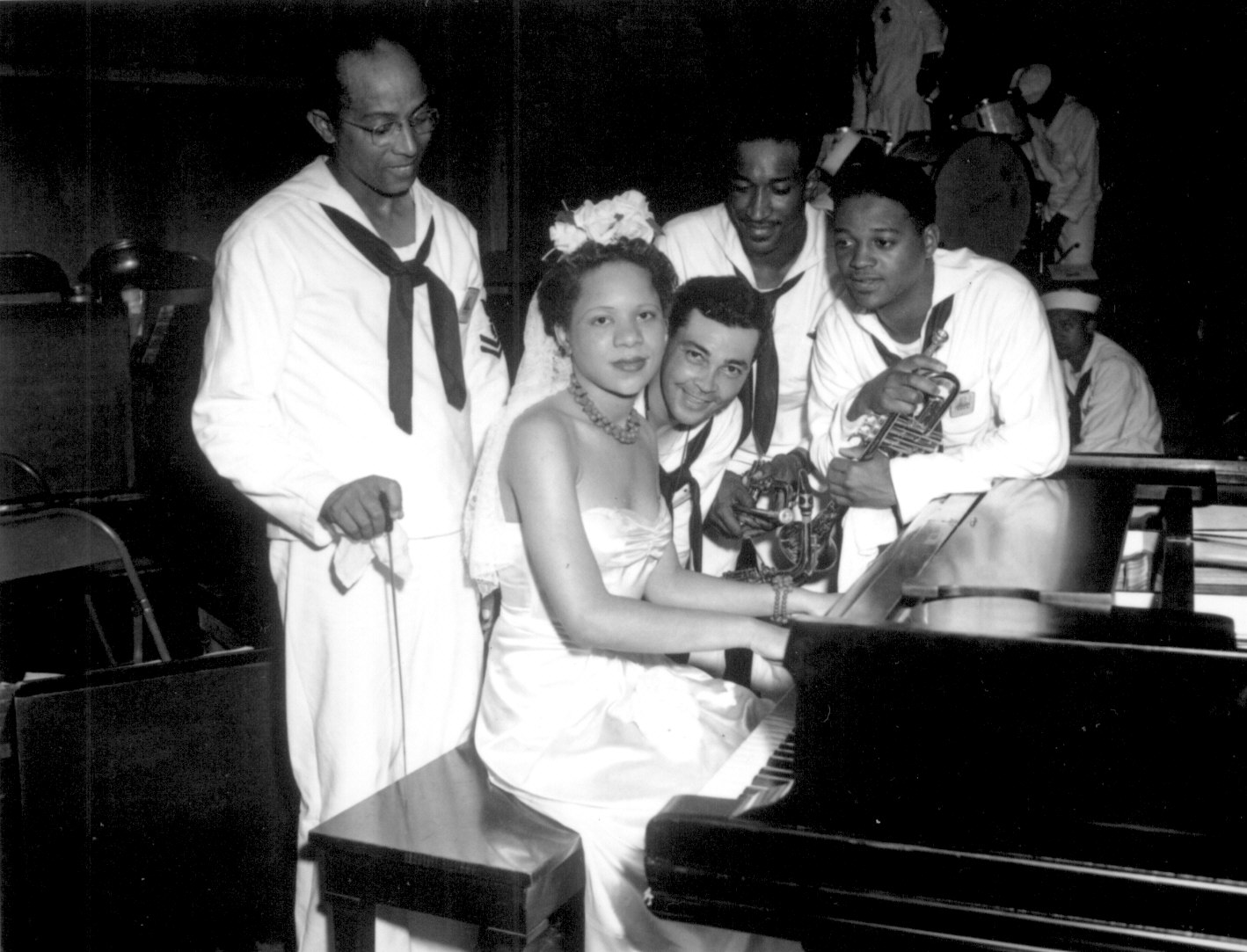 Personalities: 212. "Dorothy Donegan, pianist, and Camp Robert Smalls swing band at NTS, Great Lakes." June 16, 1943. 80-G-29490. (african_americans_wwii_212.jpg)